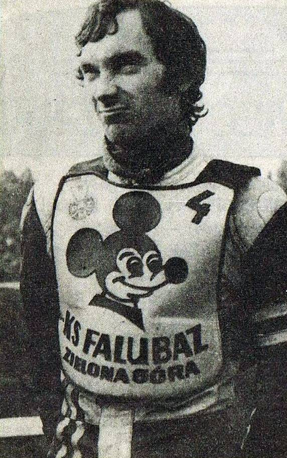 Romuald Łoś. Polish speedway rider.